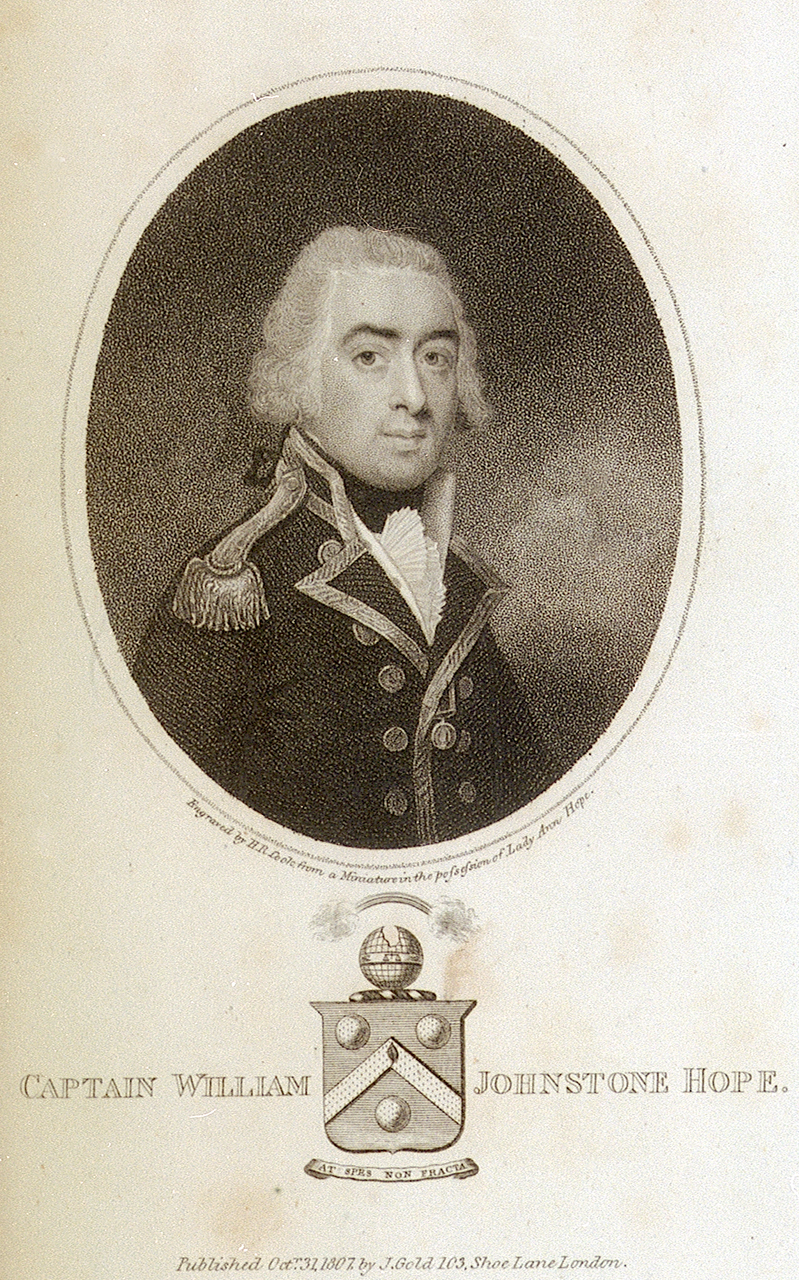 An engraving of Captain William Johnstone Hope, from a Miniature in the possession of Lady Ann Hope